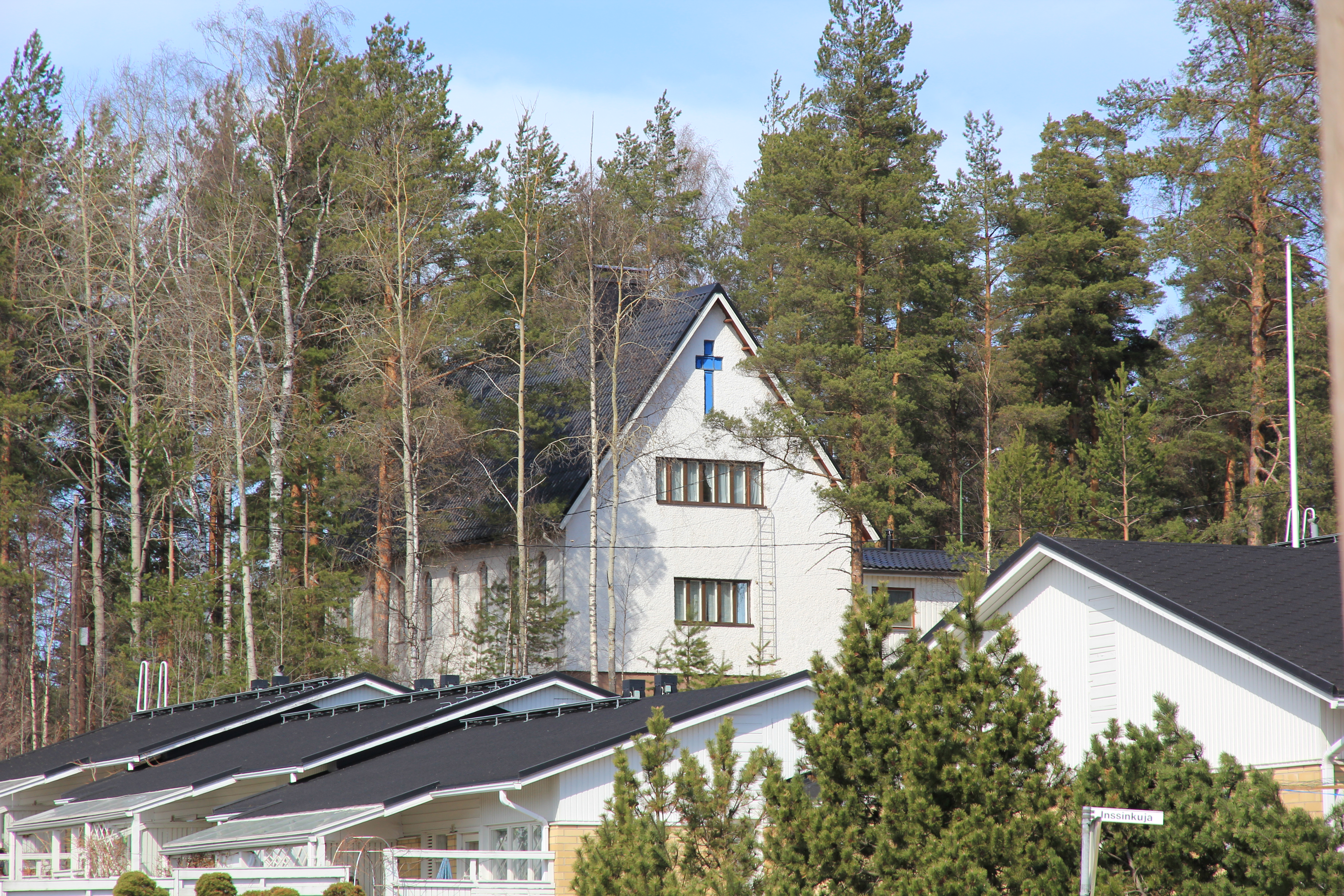 Teppanala prayer house in Imatra.